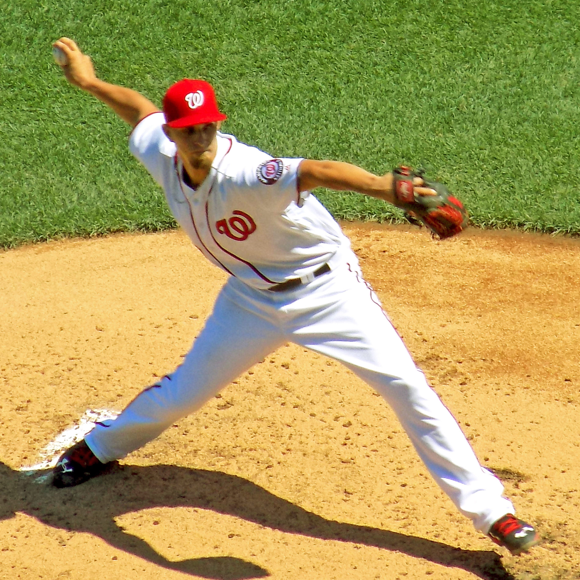 A. J. Cole